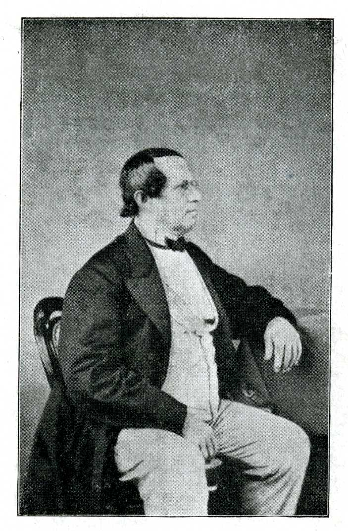 Portrait of Bernhard Molique.